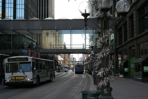 Downtown Minneapolis, Minnesota (USA) during winter.